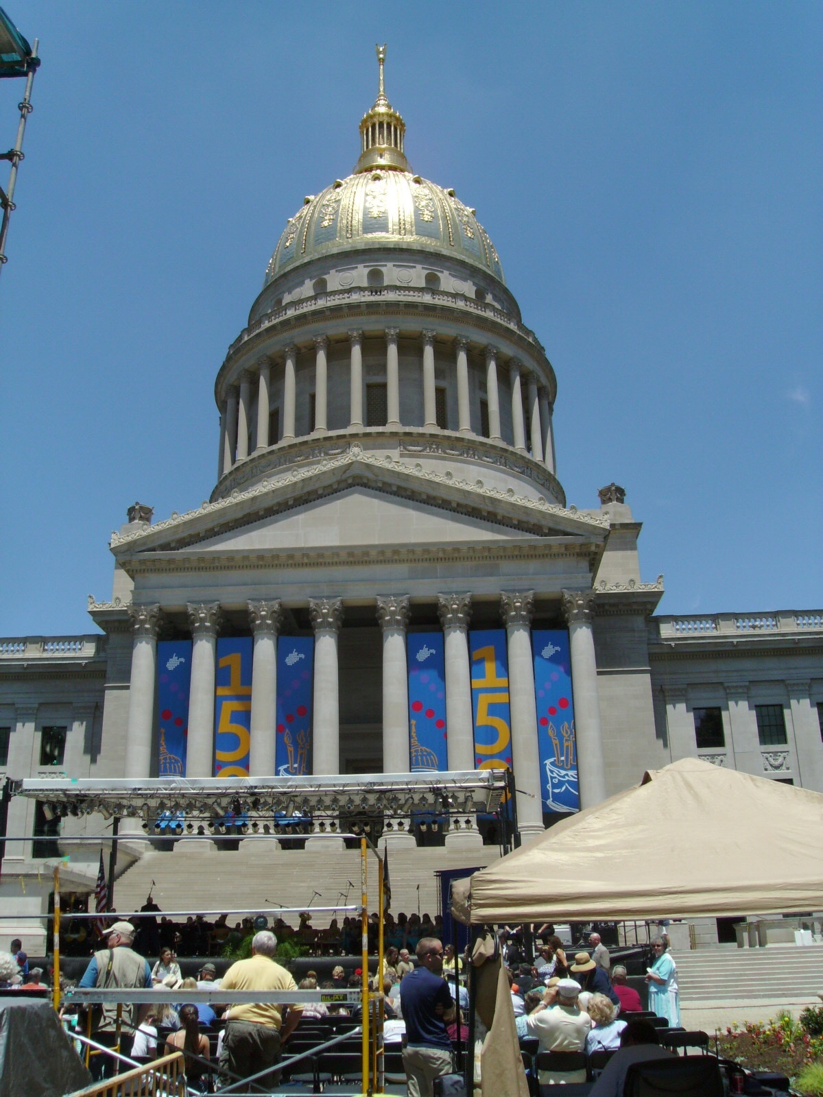 WV State Sesquicentennial